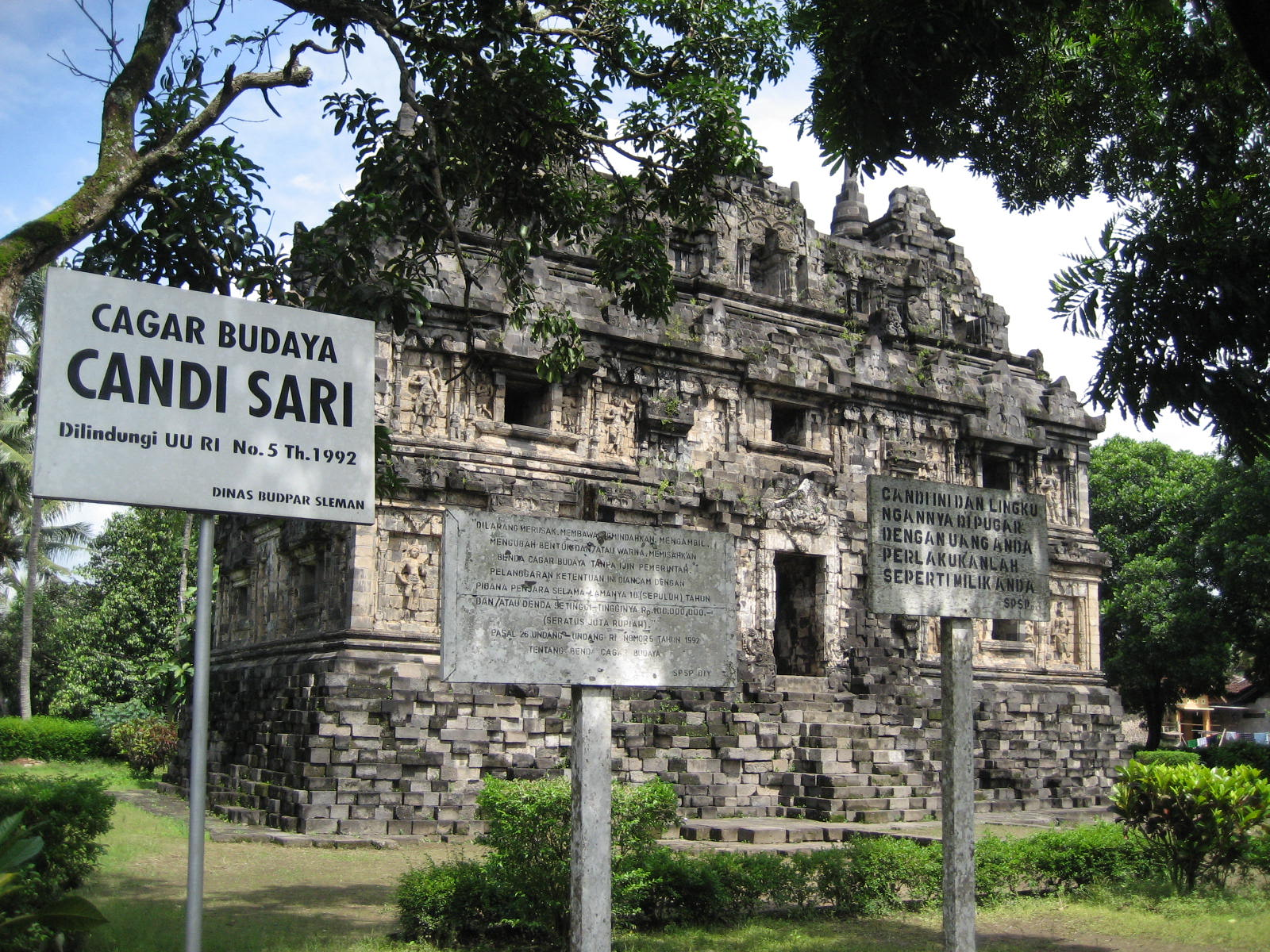 Candi Sari (Buddhist's temple) in Central Java, Yogyakarta